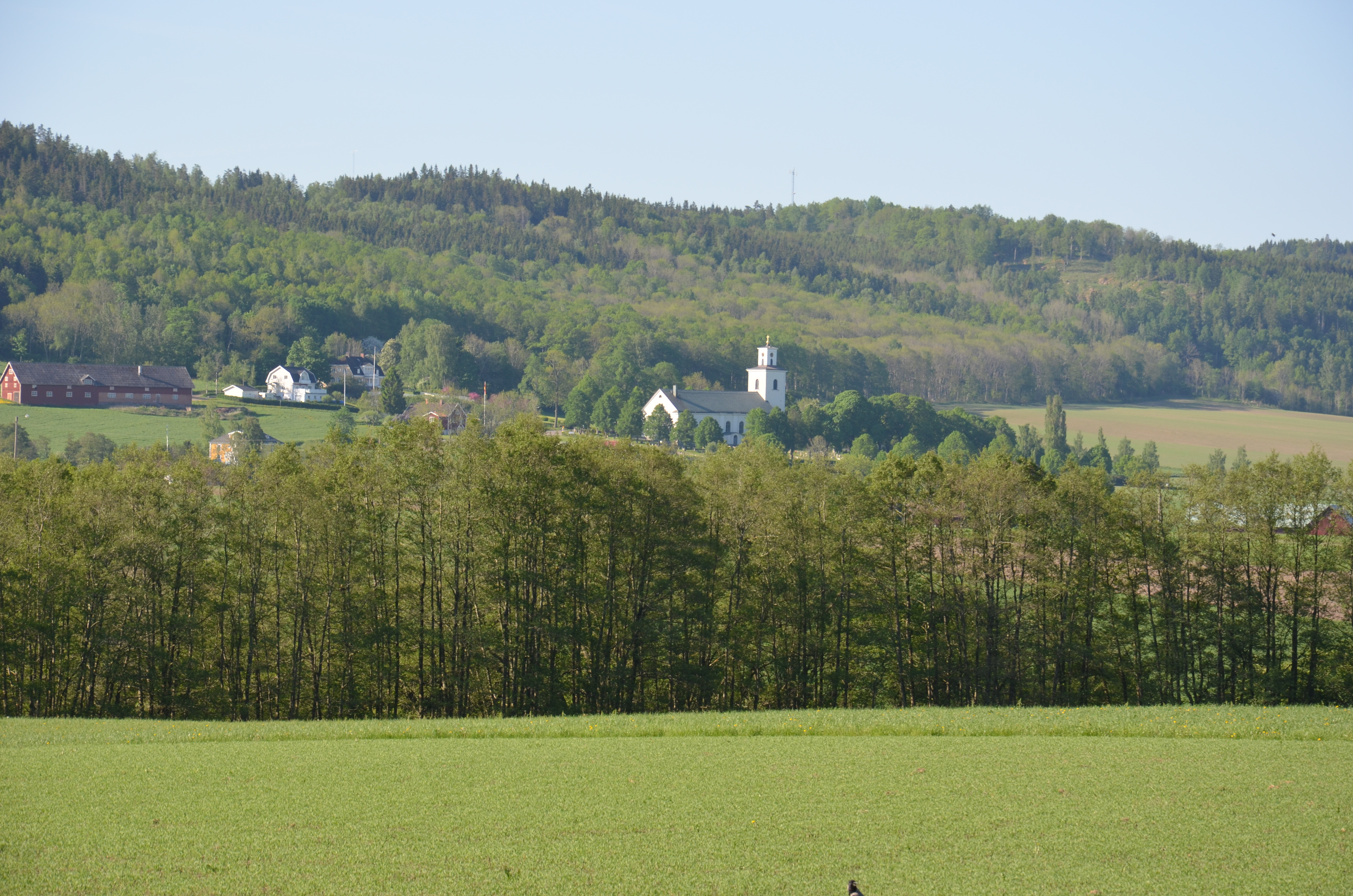 Skärstad church, municipality of Jönköping, Sweden